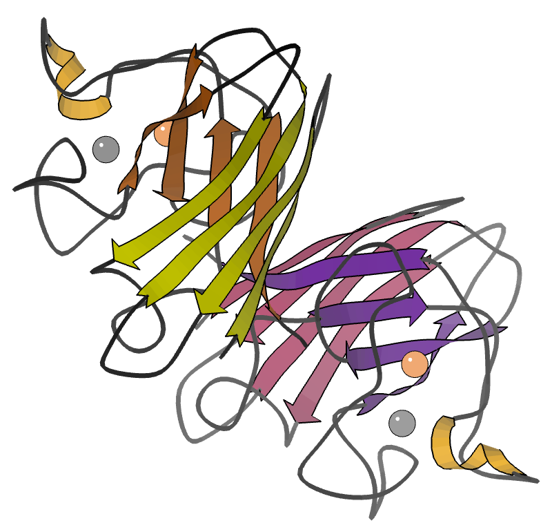 Ribbon schematic of the dimer of yeast Cu,Zn superoxide dismutase. Made in KiNG from PDB file 1sdy.